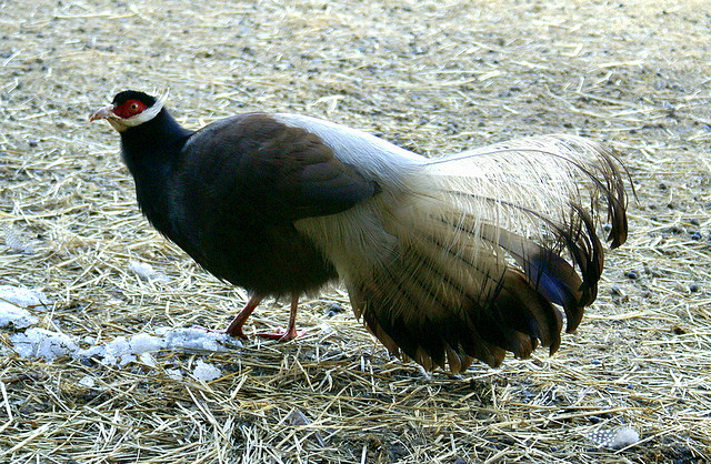 A Brown Eared Pheasant in captivity in USA.